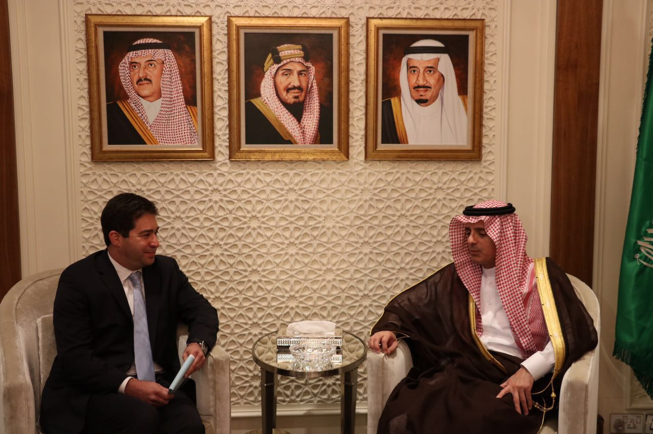 Ambassador Lee S. Wolosky and Saudi Foreign Minister Adel al Jubier